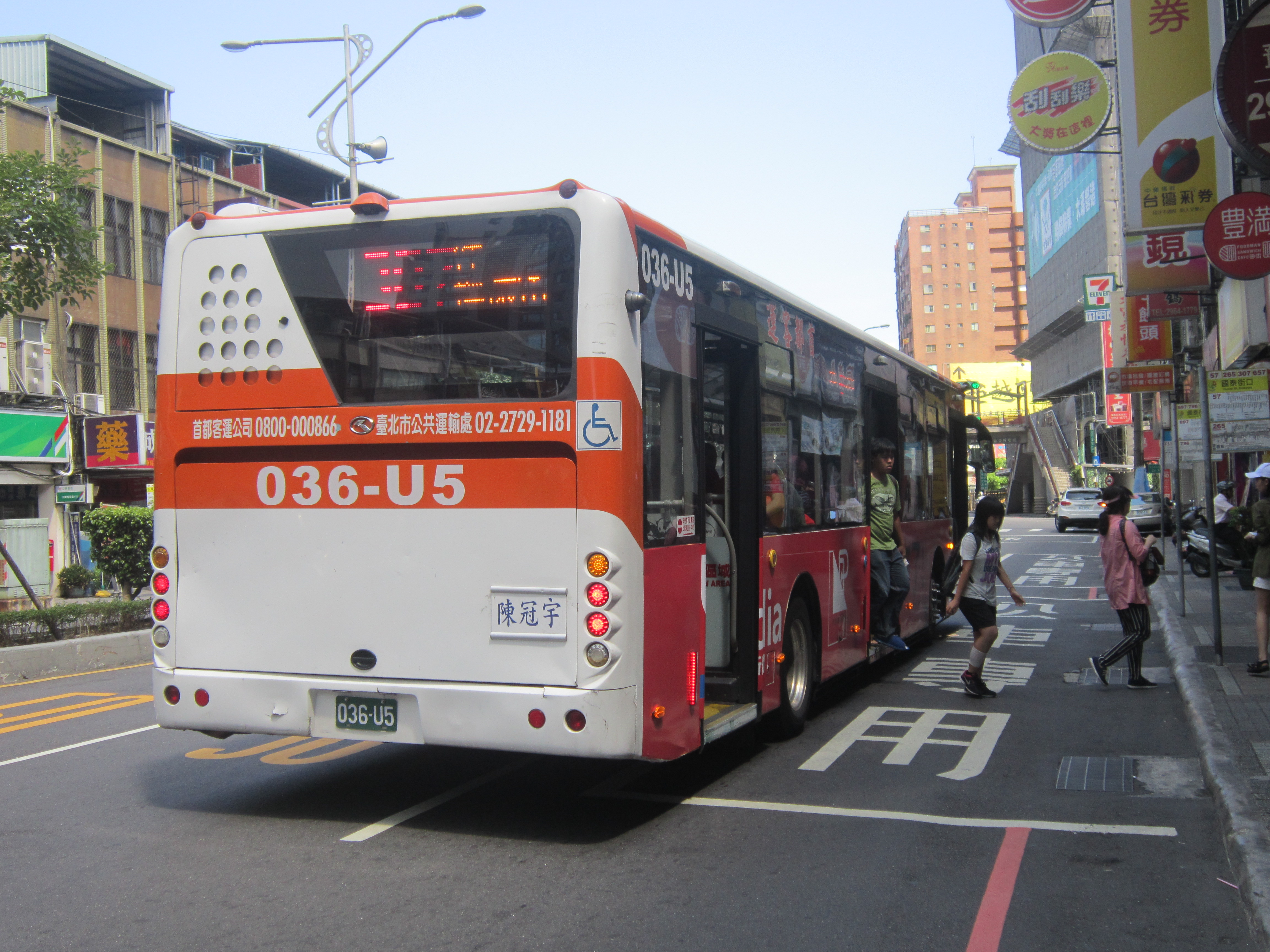 Capital Bus 036-U5 in Banqiao District, New Taipei City.